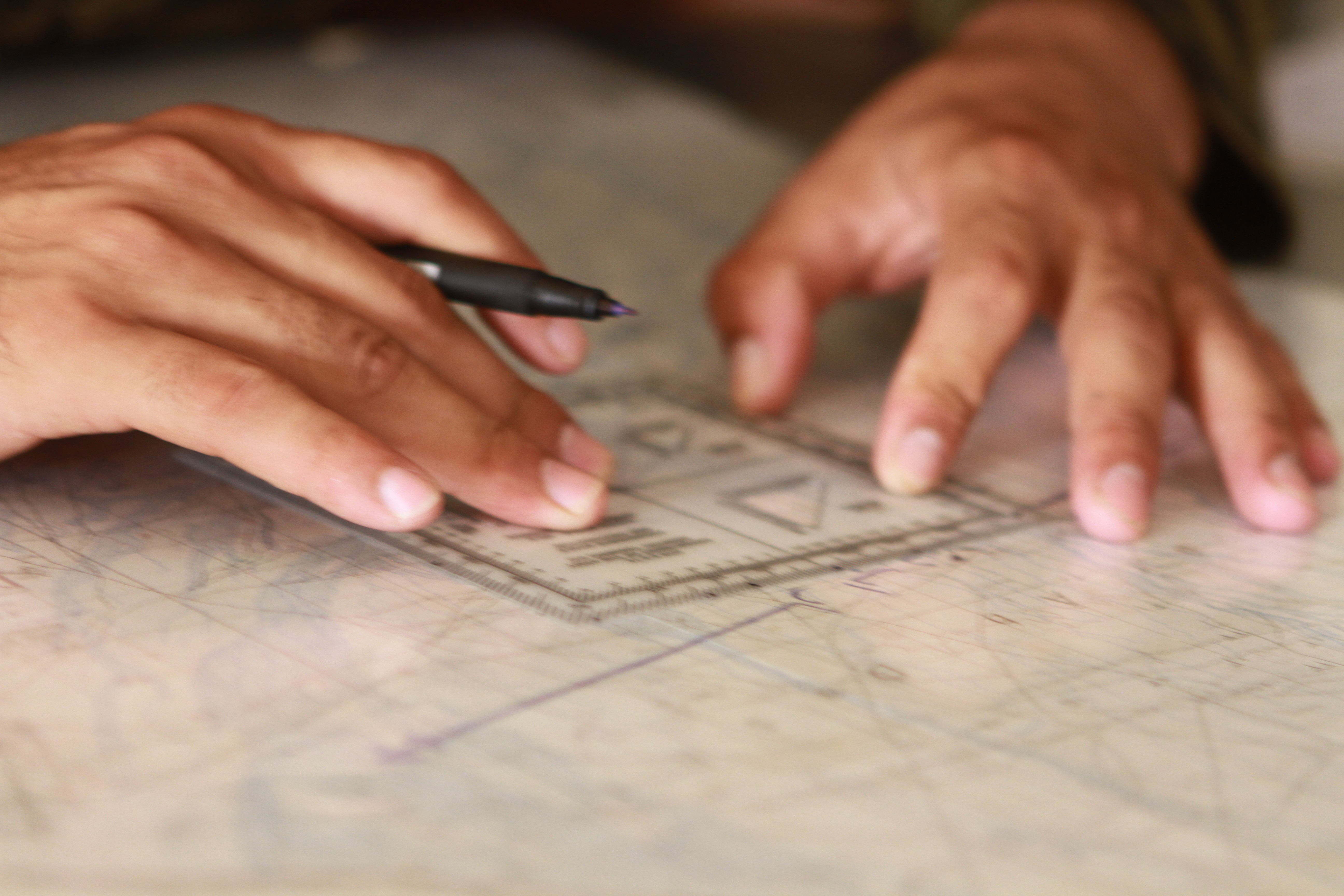 Afghan National Army soldiers plot targets on a map during the forward observer class of the Regional Corps Battle School D-30 artillery course at the camp's Regional Military Training Center, June 25. The artillery course, which also includes gun line and fire direction center training, is a recent addition to the RCBS at the ANA leadership's request. Twenty-six soldiers from all four brigades within the ANA's 215th Corps travelled to Camp Shorabak for the course. (U.S. Marine Corps Photo by Sgt. Bryan Peterson/Released) Unit: Regional Command Southwest